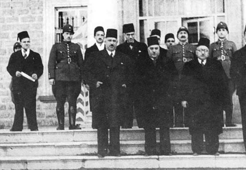 Prime Minister Lutfi al-Haffar at the Sarail on February 23, 1939From left to right: Nasib al-Bakri, the Minister of Justice, Mazhar Raslan, the Minister of Interior, and Prime Minister Haffar.